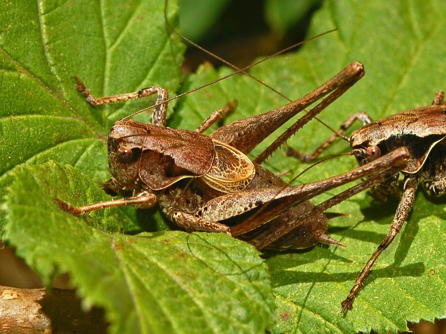 Pholidoptera griseoaptera, male